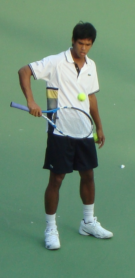 Indian Tennis Player Somdev Devvarman practices at R.K. Khanna Tennis Complex before Men's Singles Final of CWG 2010